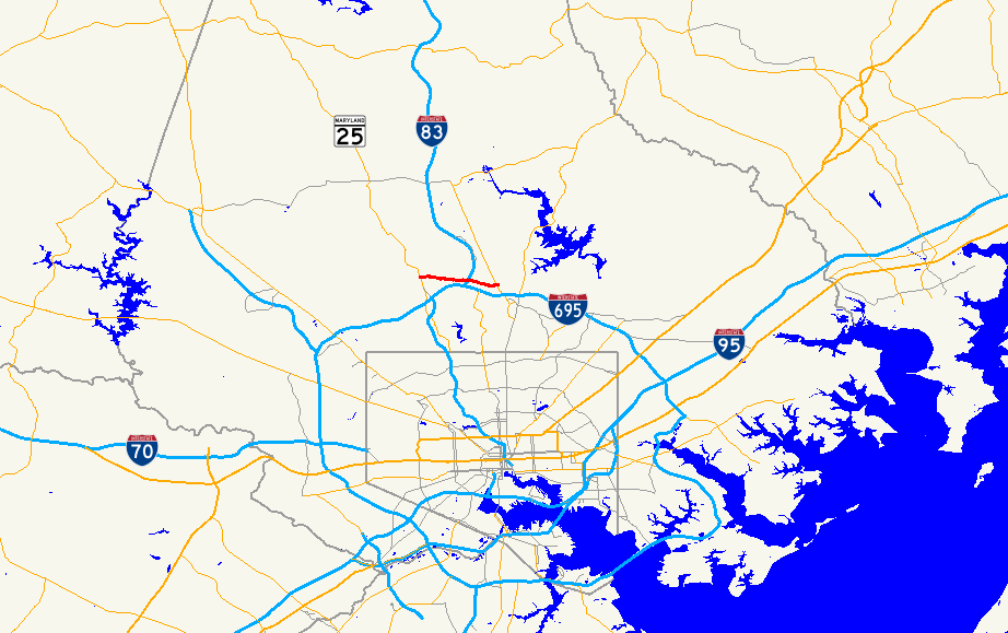 Map of Maryland Route 131